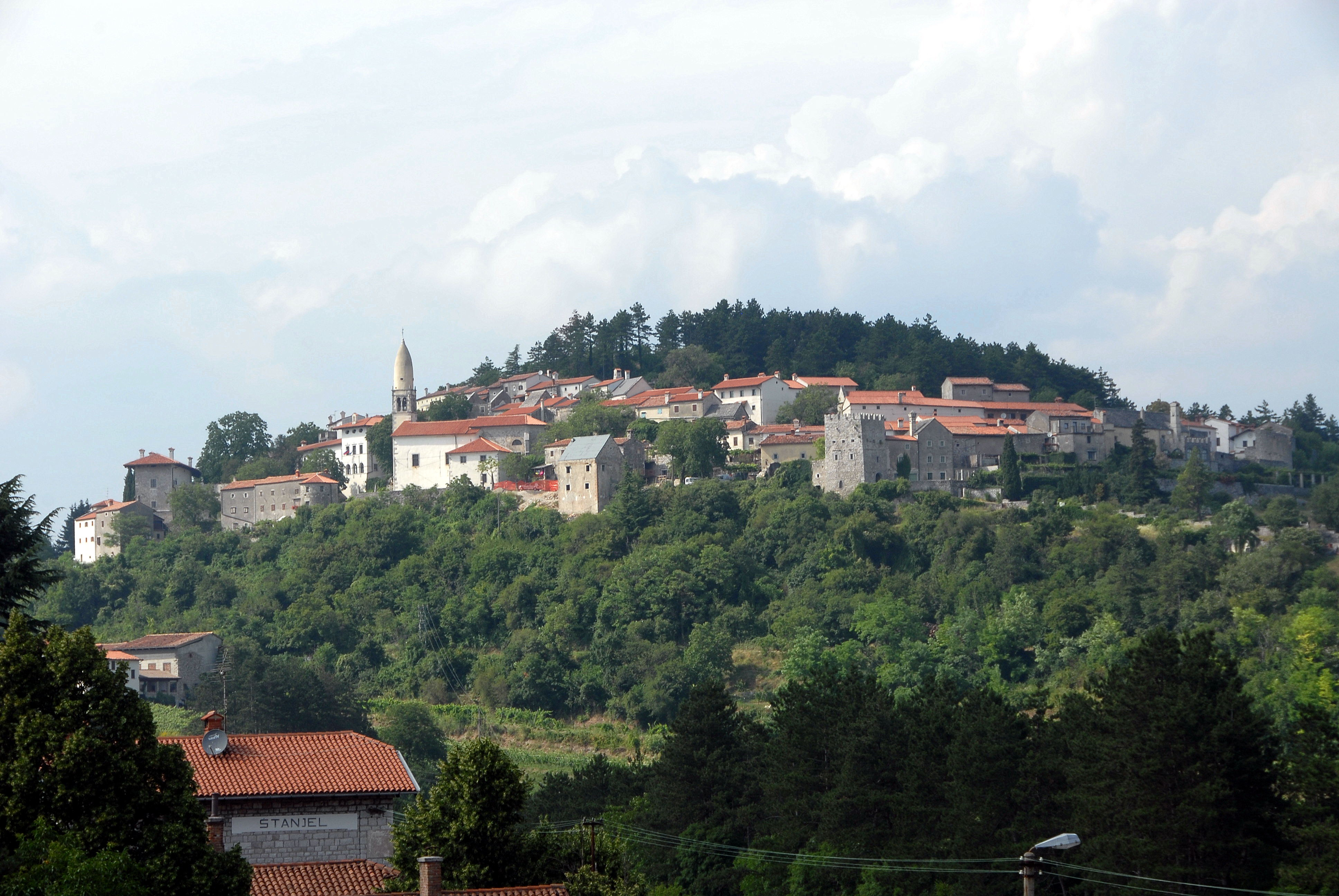 View at the city Štanjel, Primorska, Slovenia